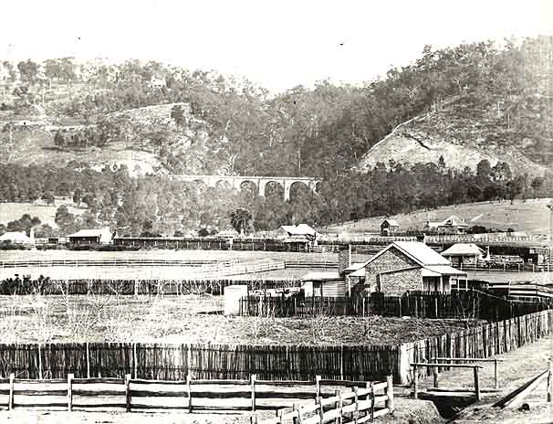 View of the Knapsack Viaduct, Lapstone Dated: No date Digital ID: 17420_a014_a014000724 Rights: We'd love to hear from you if you use our photos. Many other photos in our collection are available to view and browse on our website using Photo Investigator.